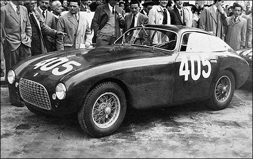 Entry #405 and overall WINNER of the Mille Miglia race in Italy on 28–29 April 1951 was the 1951 Ferrari 340 America Coupe by Vignale s/n 0082A, driven by Luigi Villoresi and Cassani of the Scuderia Ferrari team.[1] This may have been Pasquale Cassani, a mechanic in the Scuderia Ferrari team.